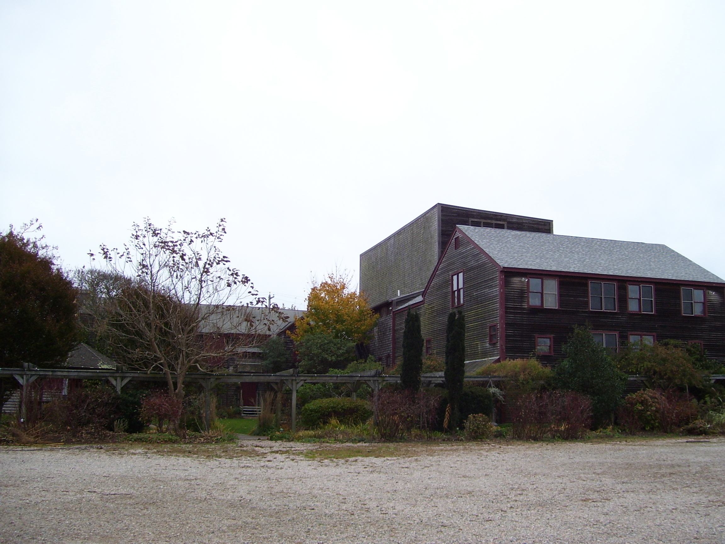 This is my 2008 photo of Theatre by the Sea in Rhode Island.